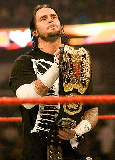 CM Punk poses with the WWE World Tag Team Championship. Taken on November 4, 2008 in Tampa, Florida.